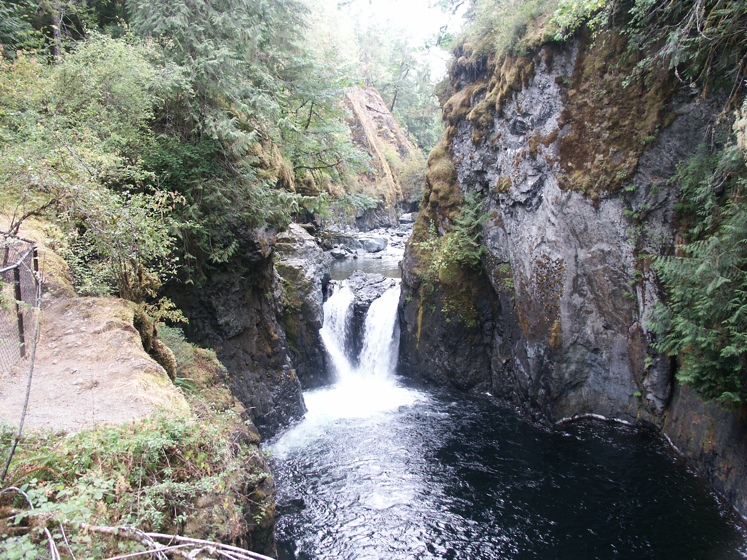 Englishman River Falls, near Errington, Vancouver Island, British Columbia in the BC Provincial Park of the same name.